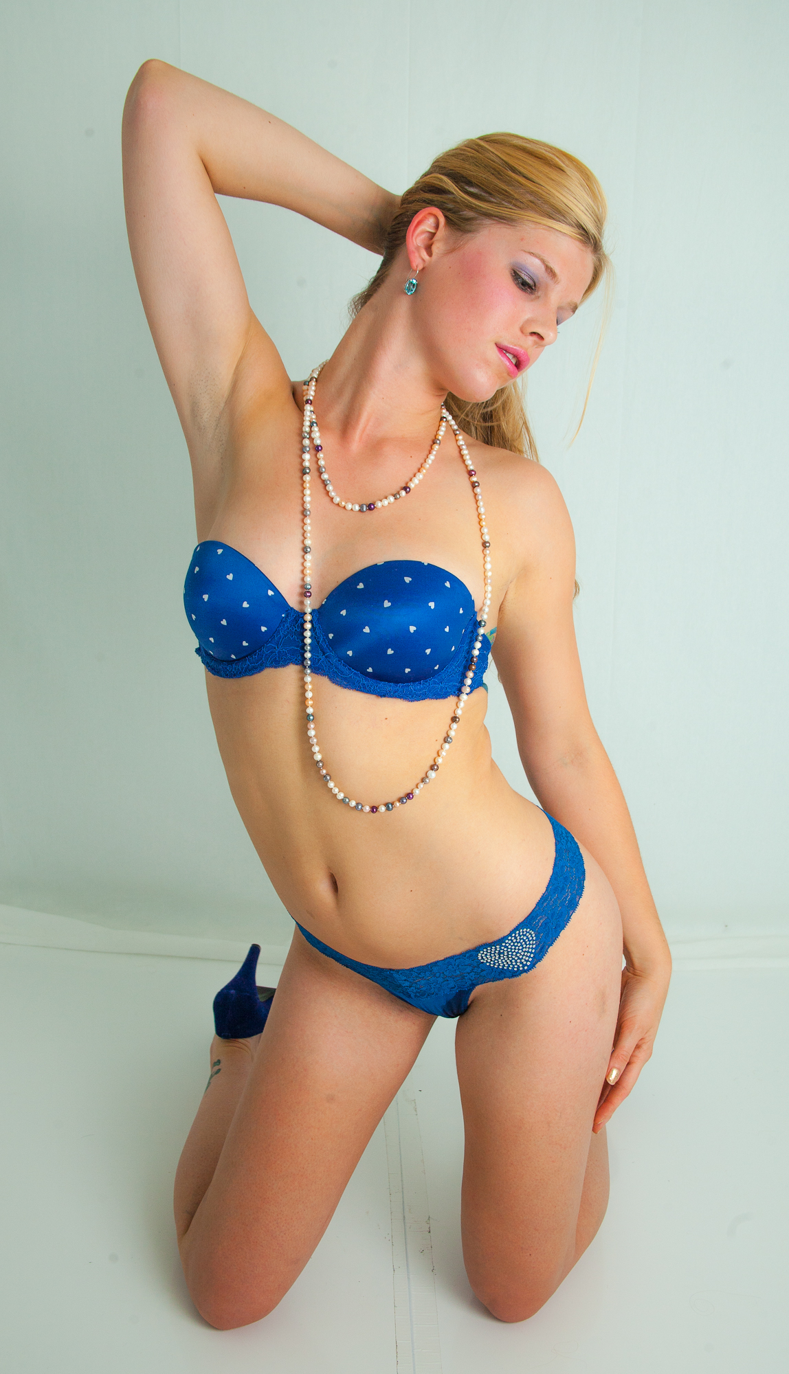 This was my first with Emily, way back in July 2012. Emily rushed over after working a full shift and she looked absolutely gorgeous. She is a blast to shoot with - a beautiful lass with an incredible smile and lovely personality. Emily definitely has the potential to go far in her modeling career and I wish her the best! We did this shoot in South Anchorage, Alaska.